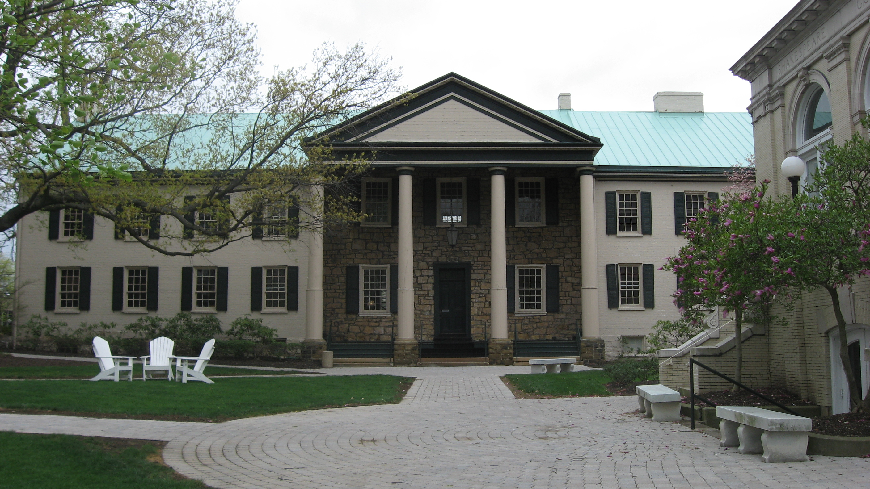 Western side of McMillan Hall on the campus of Washington & Jefferson College in Washington, Pennsylvania, United States. Built in 1793, it is listed on the National Register of Historic Places.